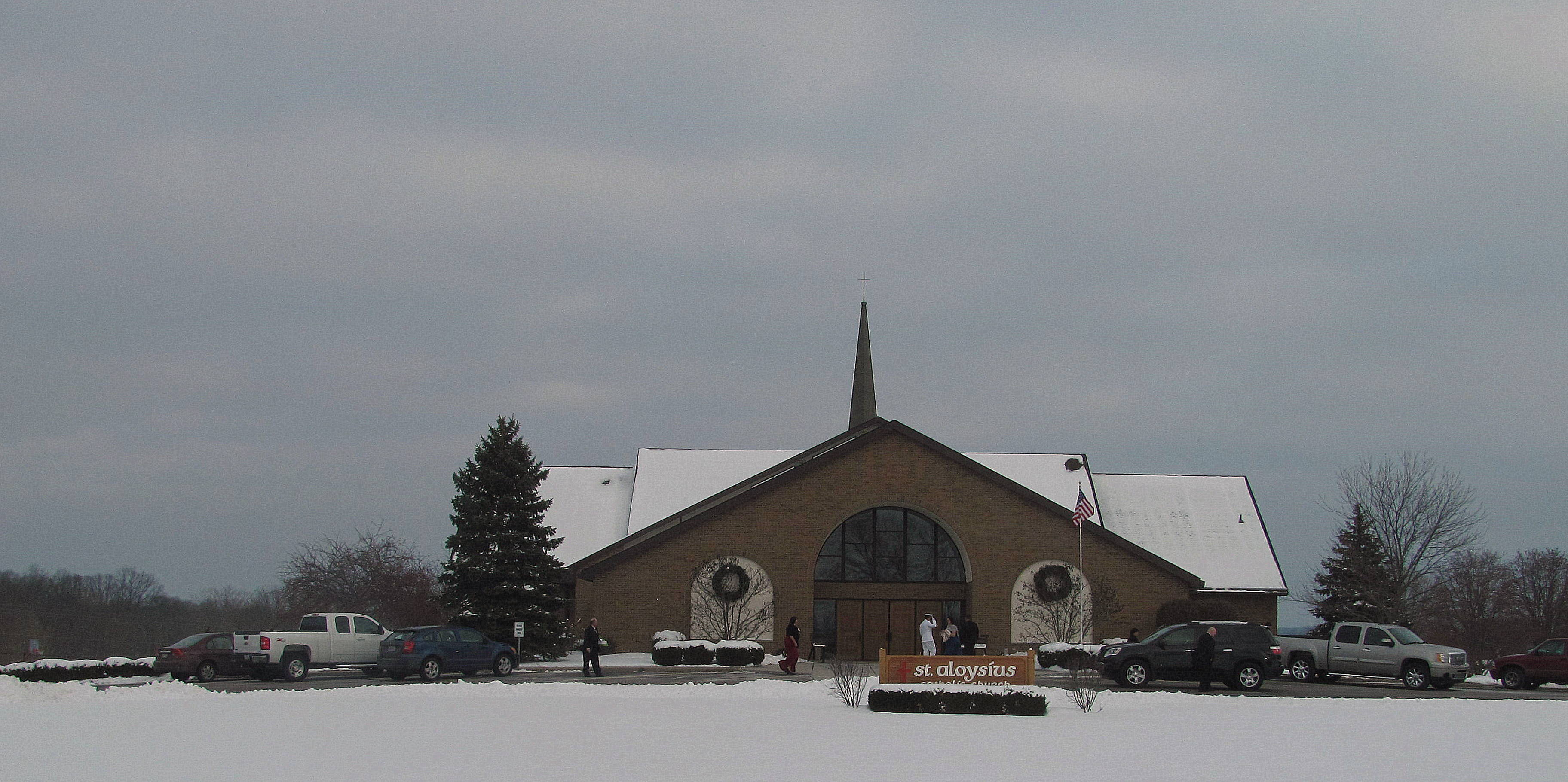 St. Aloysius Catholic Church in Shandon, Ohio exterior with a blanket of snow